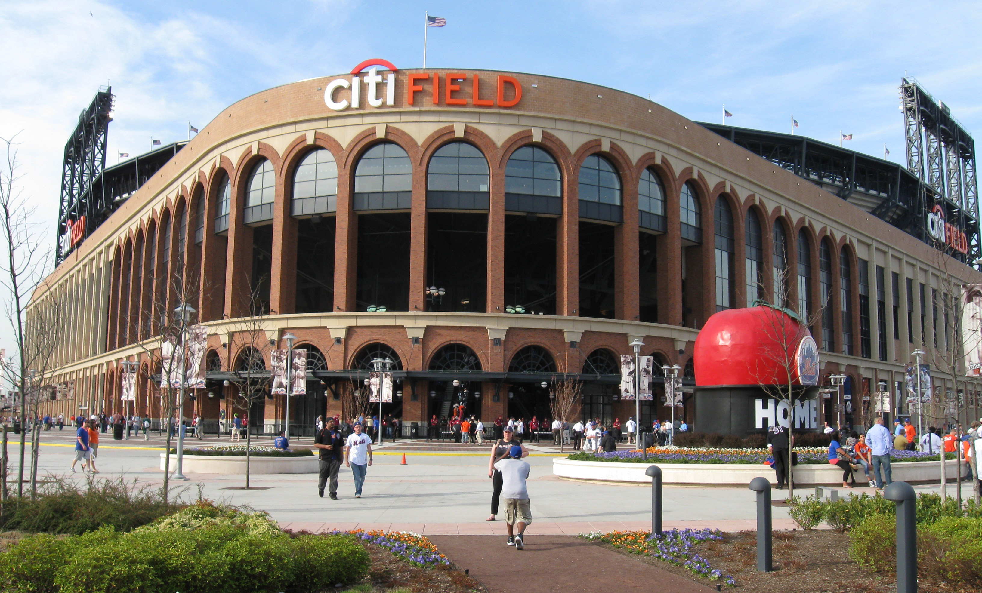 Citi Field with Shea Stadium's Home Run Apple